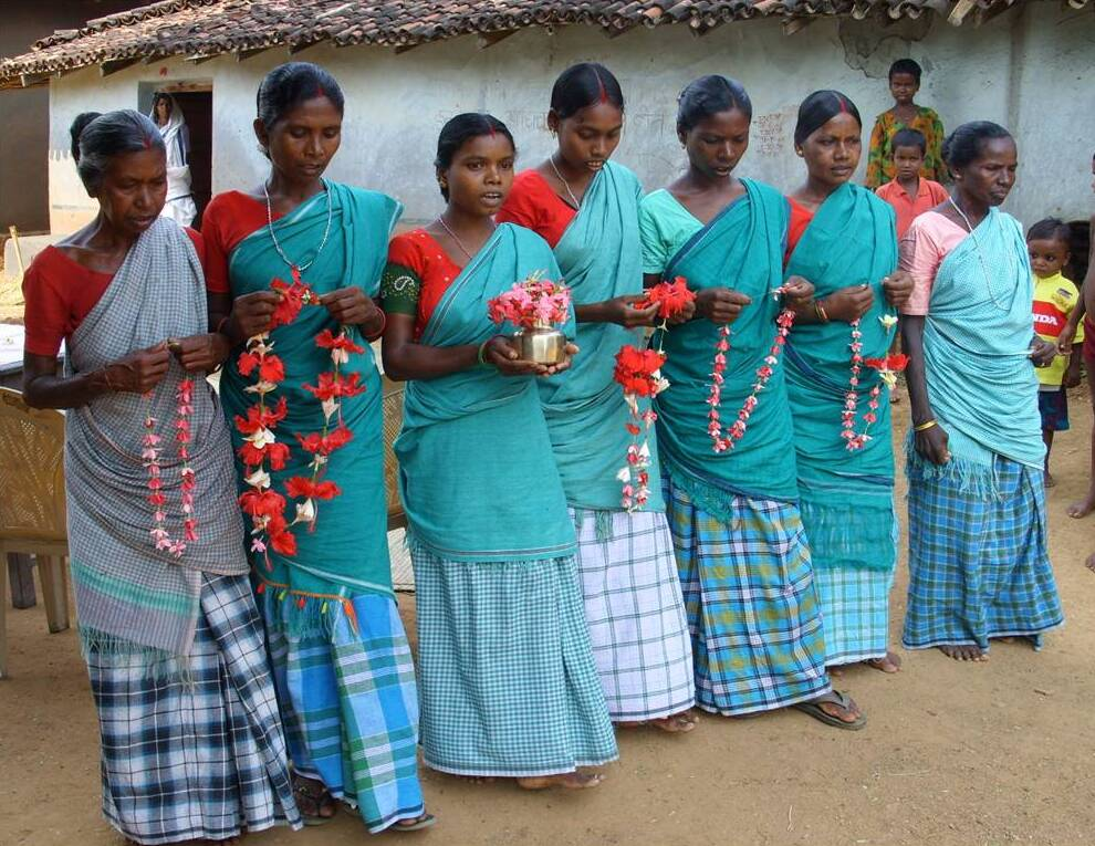 Also spelled Santhal or Sonthal. Found in India, Nepal and Bangladesh.